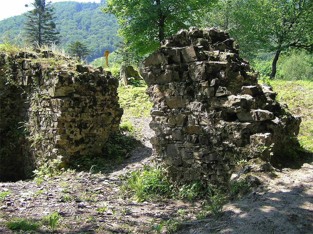 Castle Wołek in Kobiernice (Poland).